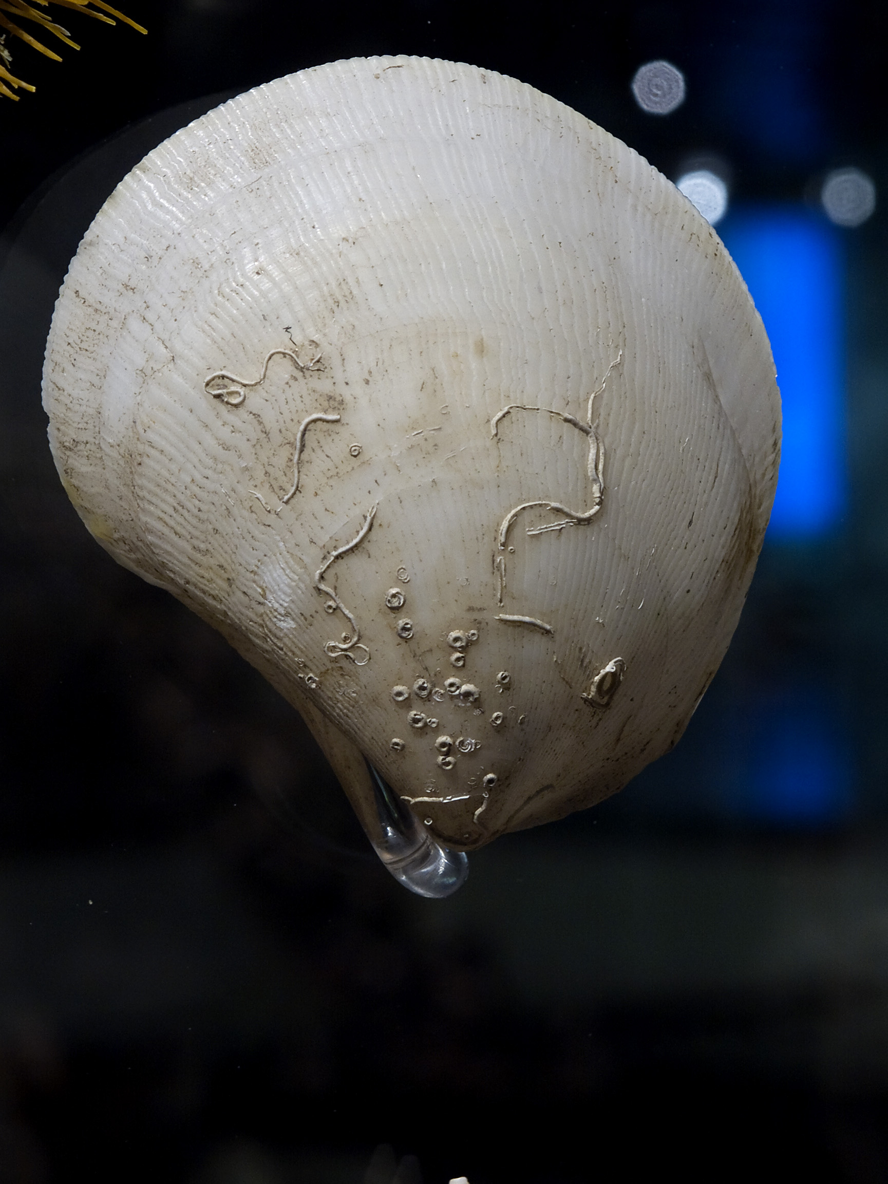 Acesta bullisi Louisiana HMNS 32806 Wikipedia Loves Art at the Houston Museum of Natural Science This photo of item # 32806 at the Houston Museum of Natural Science was contributed under the team name "Assignment_Houston_One" as part of the Wikipedia Loves Art project in February 2009. Houston Museum of Natural Science The original photograph on Flickr was taken by skarsol—please add a comment to the original Flickr page whenever a use has been made on Wikipedia or another project. Project galleries on Flickr: this institution, this team